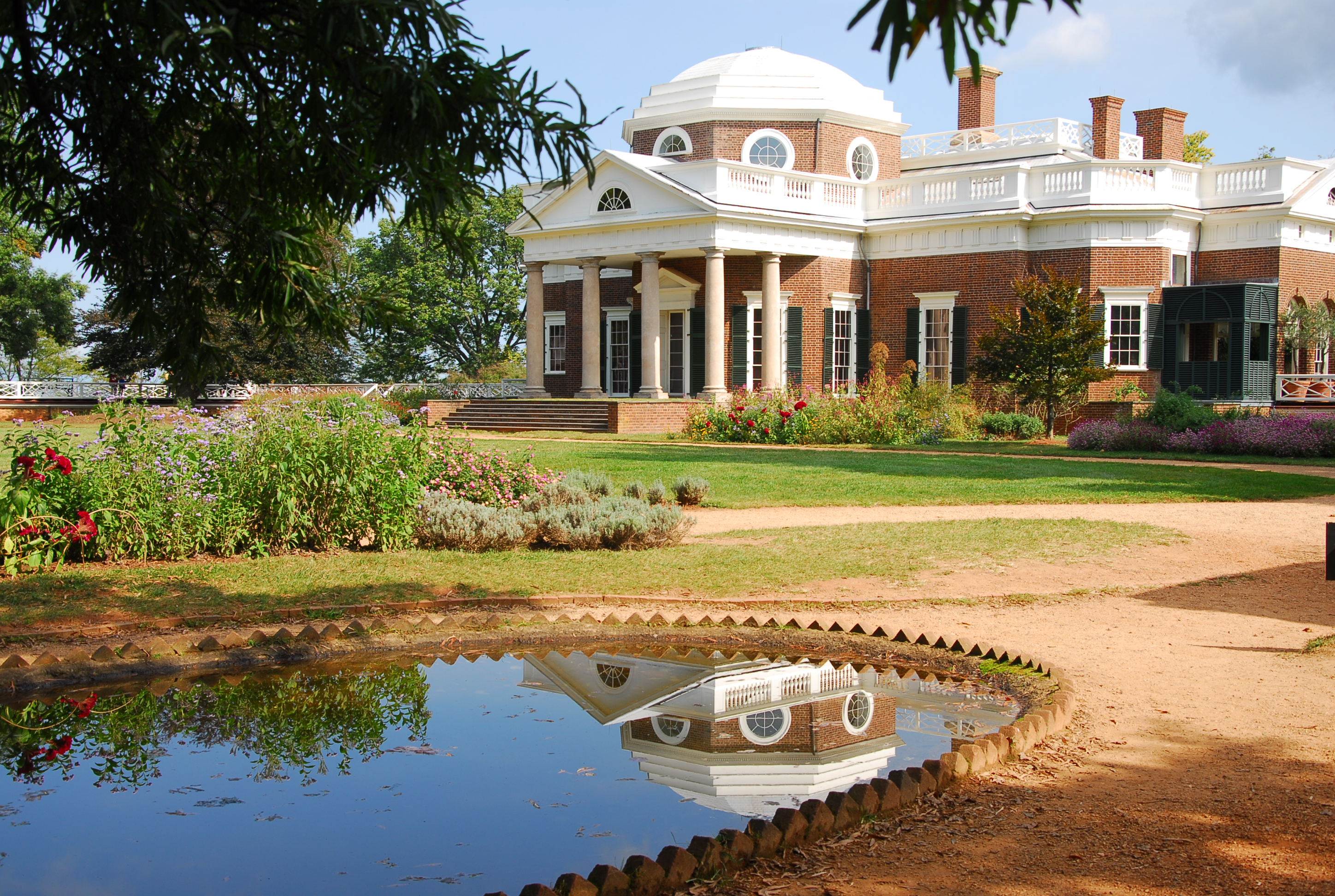 The Fish Pond at Monticello.